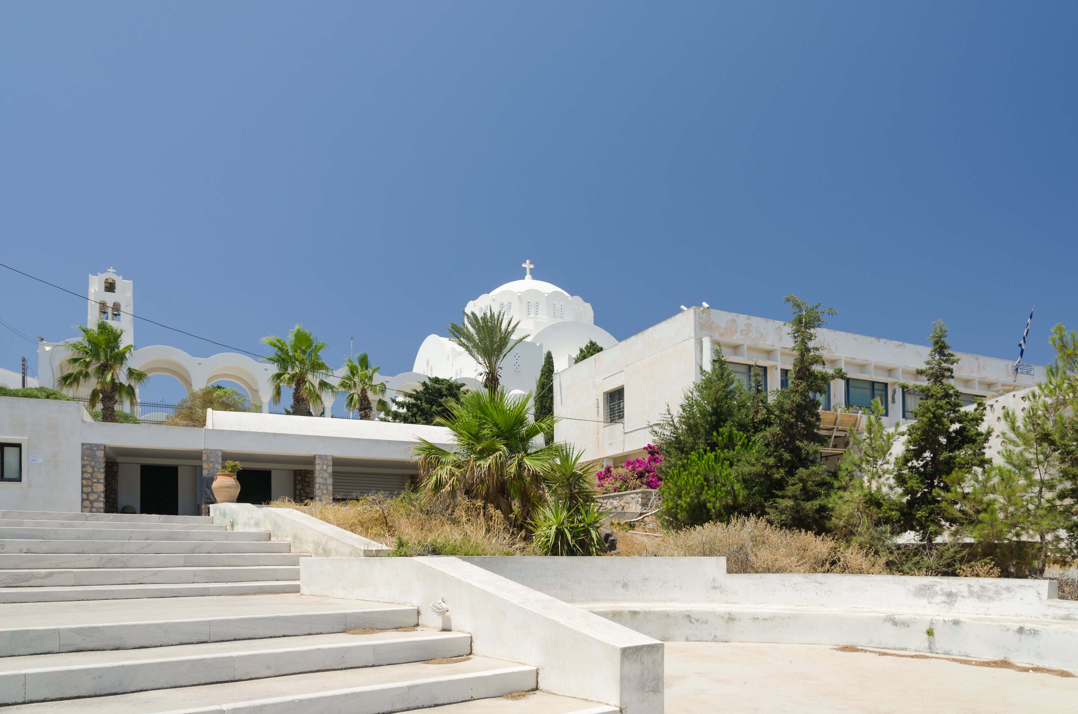 Prehistoric museum and Ypapanti cathedral in Fira, Santorini, Greece.